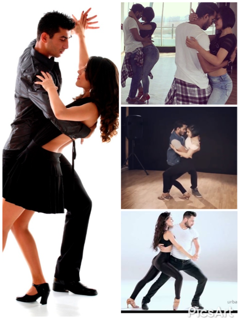 Cuban Dance form